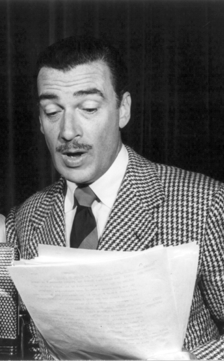 Walter Pidgeon, American actor. Original caption: Three Thirds of a Nation. Barbara Jane Wong, American-born Chinese actress, shares mike with film star Walter Pidgeon for the War Production Board (WPB) radio program "Wool". NOTE: Barbara Jane Wong has been cropped from this image.